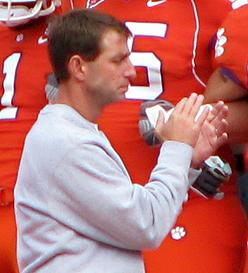 Clemson football head coach Dabo Swinney